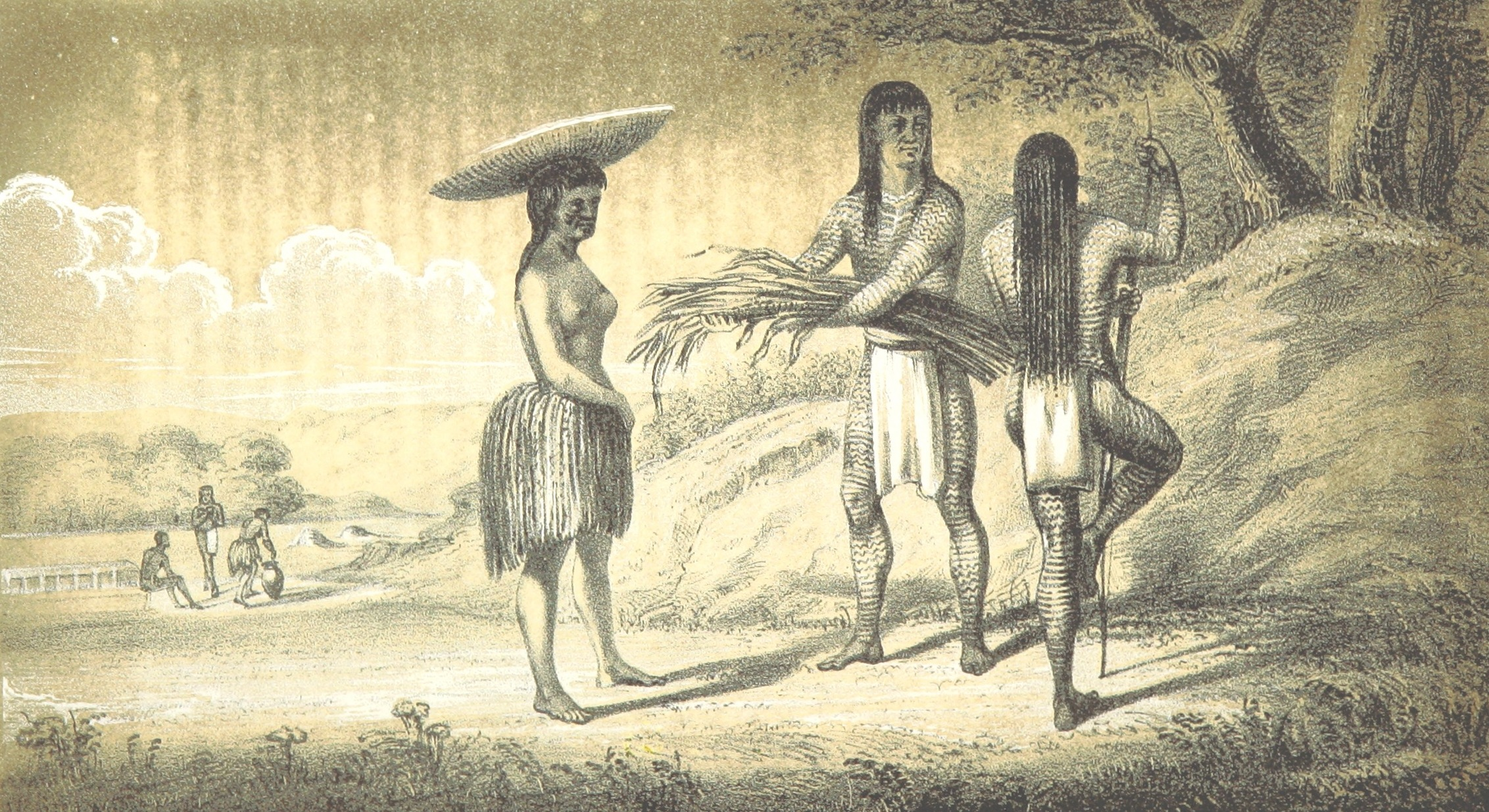 Image taken from: Title: "Report of an expedition down the Zuni and Colorado Rivers by Captain L. Sitgreaves ... Illustrations. (Report on ... Natural History ... by S. W. Woodhouse. Zoology: mammals and birds by S. W. Woodhouse; reptiles by E. Hallowell; fishes by S. F. Baird and C. Girard. Botany: by Professor J. Torrey. Medical report; by S. W. Woodhouse.)" Author: SITGREAVES, Lorenzo. Contributor: Baird, Spencer Fullerton Contributor: Girard, Charles Contributor: HALLOWELL, Edward. Contributor: Torrey, John Contributor: WOODHOUSE, S. W. Shelfmark: "British Library HMNTS 10408.d.14." Page: 64 Place of Publishing: Washington Date of Publishing: 1853 Issuance: monographic Identifier: 003399095 Explore: Find this item in the British Library catalogue, 'Explore'. Download the PDF for this book (volume: 0) Image found on book scan 64 (NB not necessarily a page number) Download the OCR-derived text for this volume: (plain text) or (json) Click here to see all the illustrations in this book and click here to browse other illustrations published in books in the same year. Order a higher quality version from here.